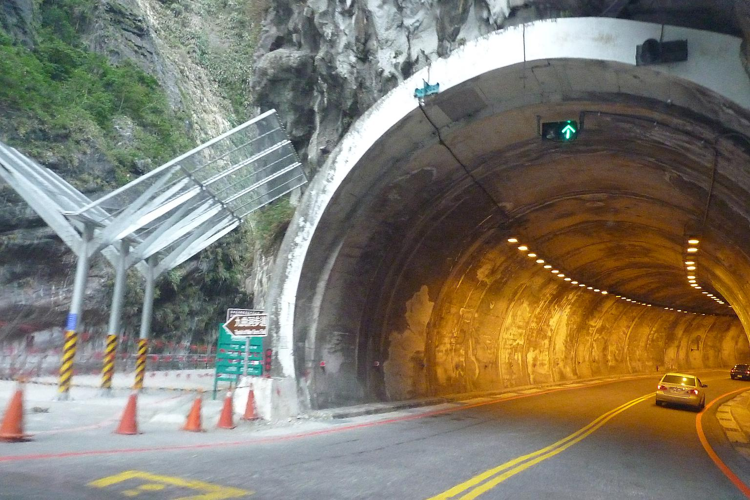 A rockfall barrier beside a tunnel at Taroko National Park, Taiwan.